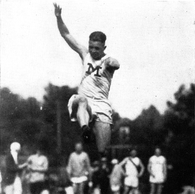 Photograph of Walter Wesbrook, competing in the broad jump for the 1920-1921 Michigan Wolverines track team